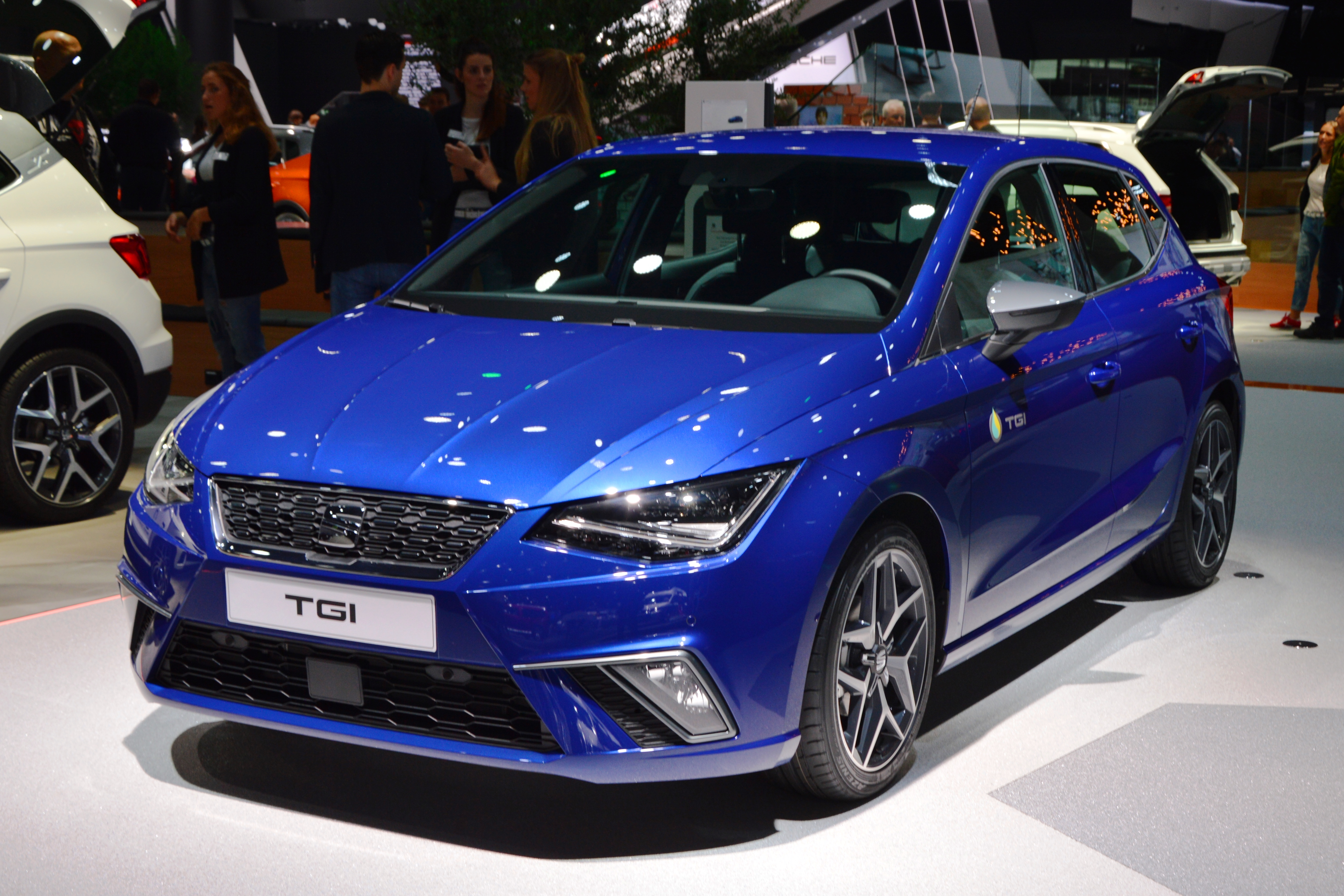 SEAT Ibiza 1,0 TGI 66 kW.